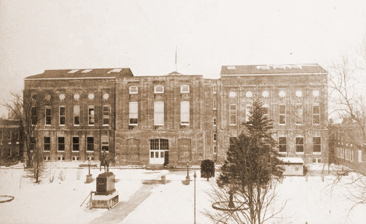 The Cobb Capitol, the predecessor to the current Pennsylvania State Capitol, in Harrisburg, Pennsylvania